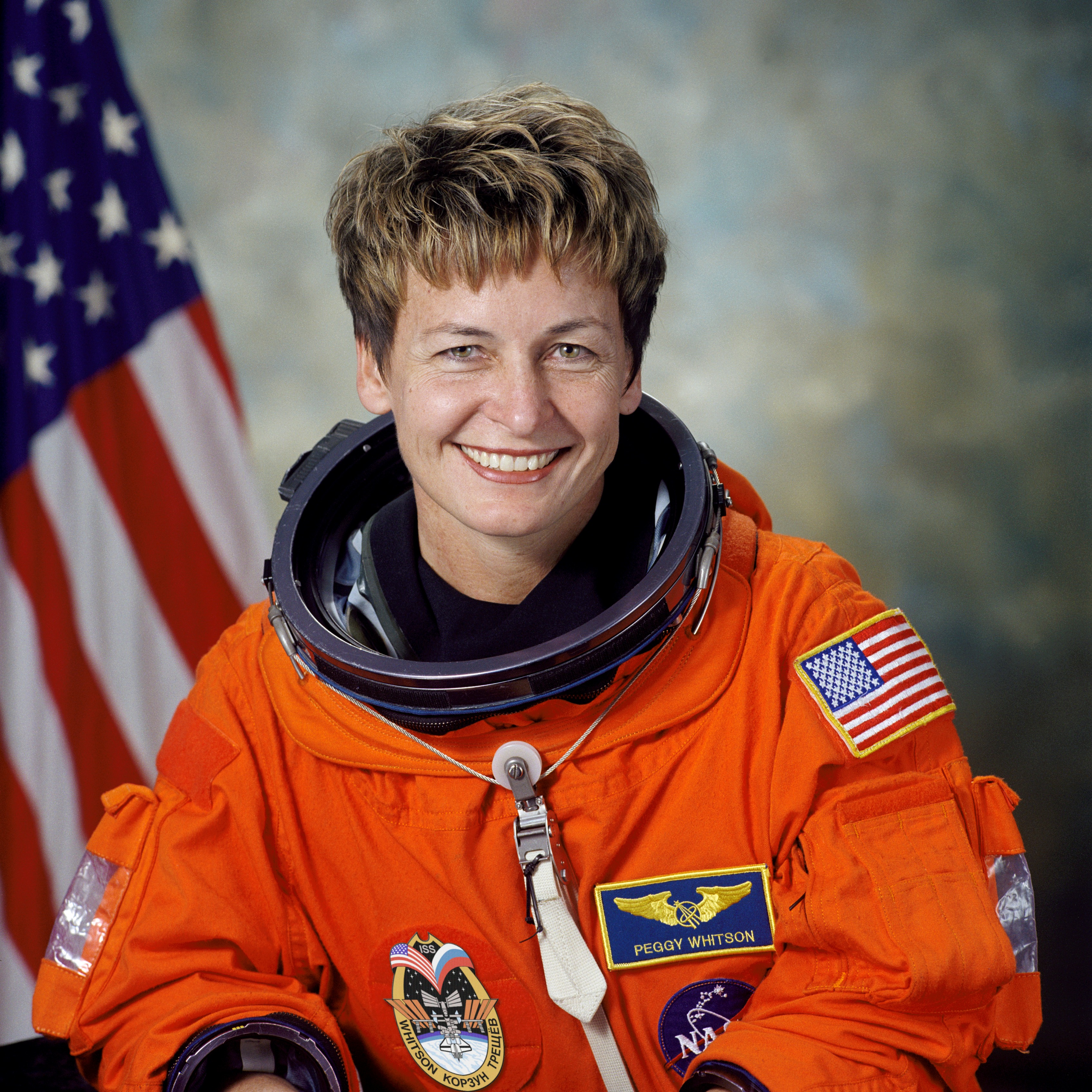 portrait astronaut peggy whitson